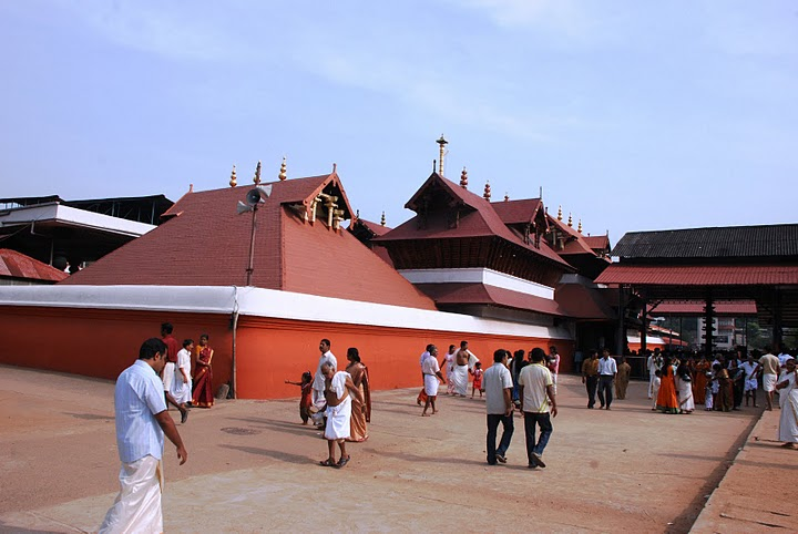 Guruvayur temple.